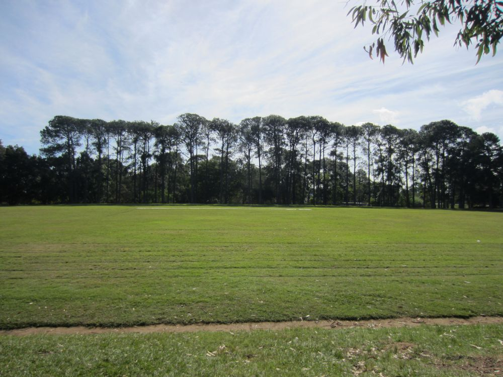 Virginia State School - Oval and forestry plot, from S (2015)